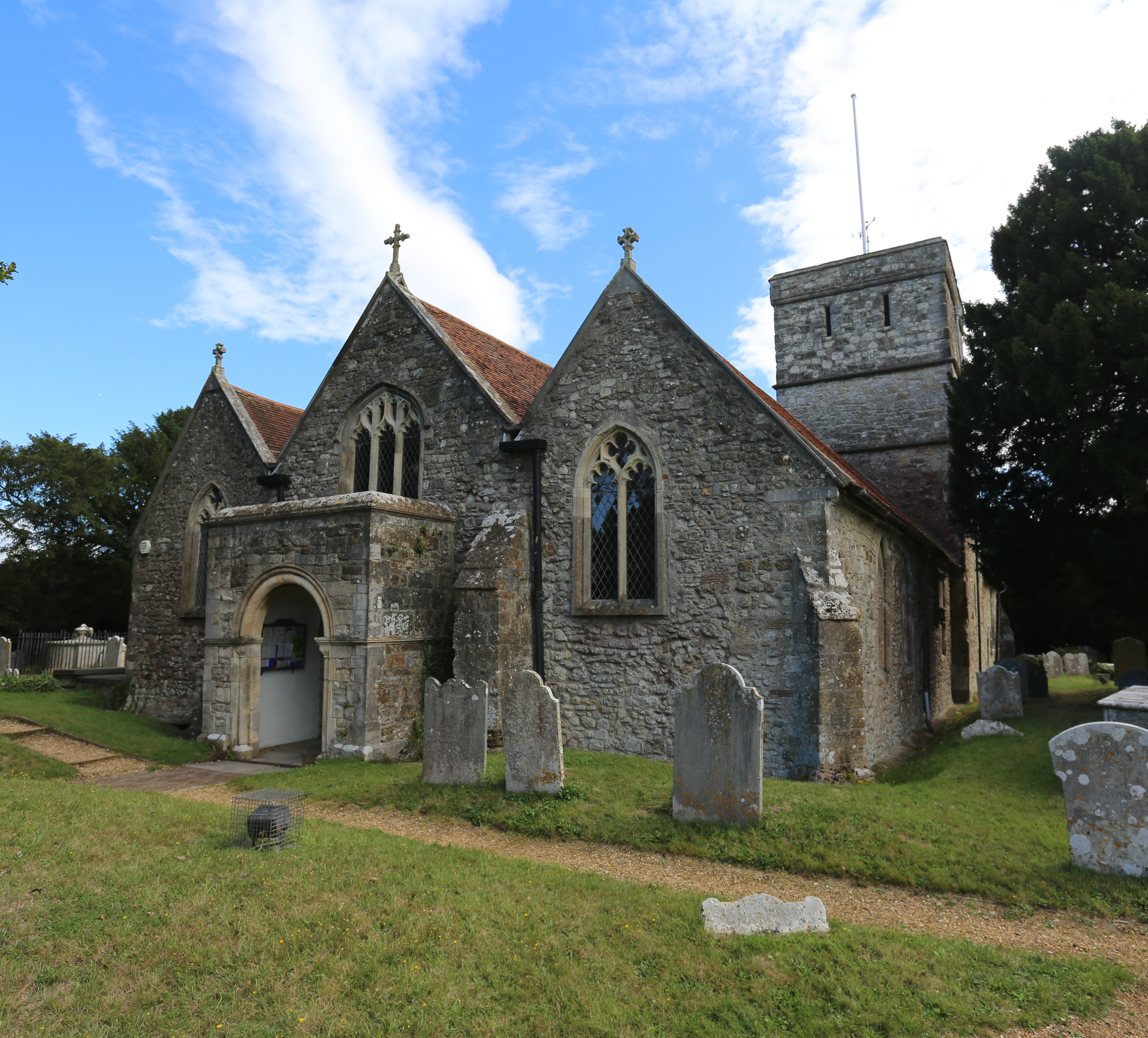 exterior of Church of All Saints in Fawley